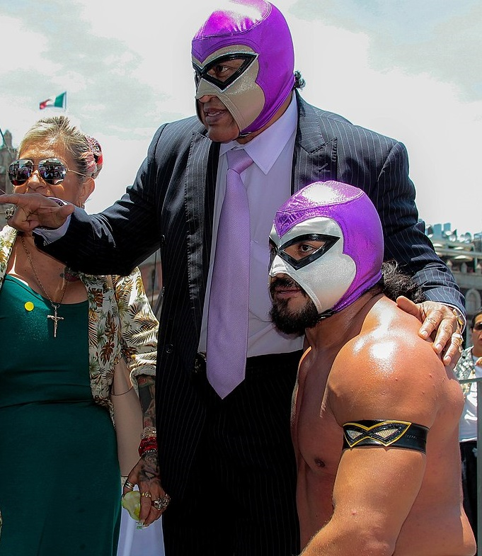 AAA July 2018 El Fantasma and El Hijo del Fantasma